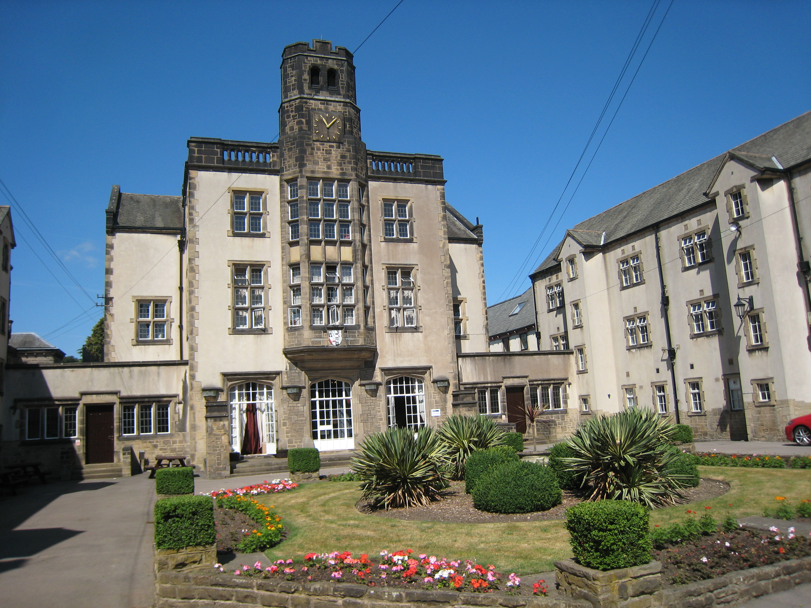 Devonshire Hall,Cumberland Road, Headingley, Leeds LS6 2EQ. Now student accommodation for the University of Leeds. Main entrance to original building inside courtyard, with newer student flats on on the right.